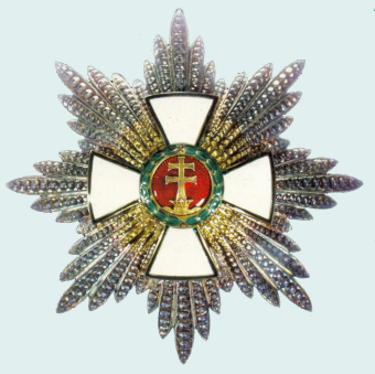 Magyar Érdemkereszt csillaga, 1923-1935 közötti változat